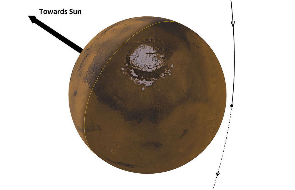 Flight path of Inspiration Mars capsule during fly-by periapsis of the planet Mars.